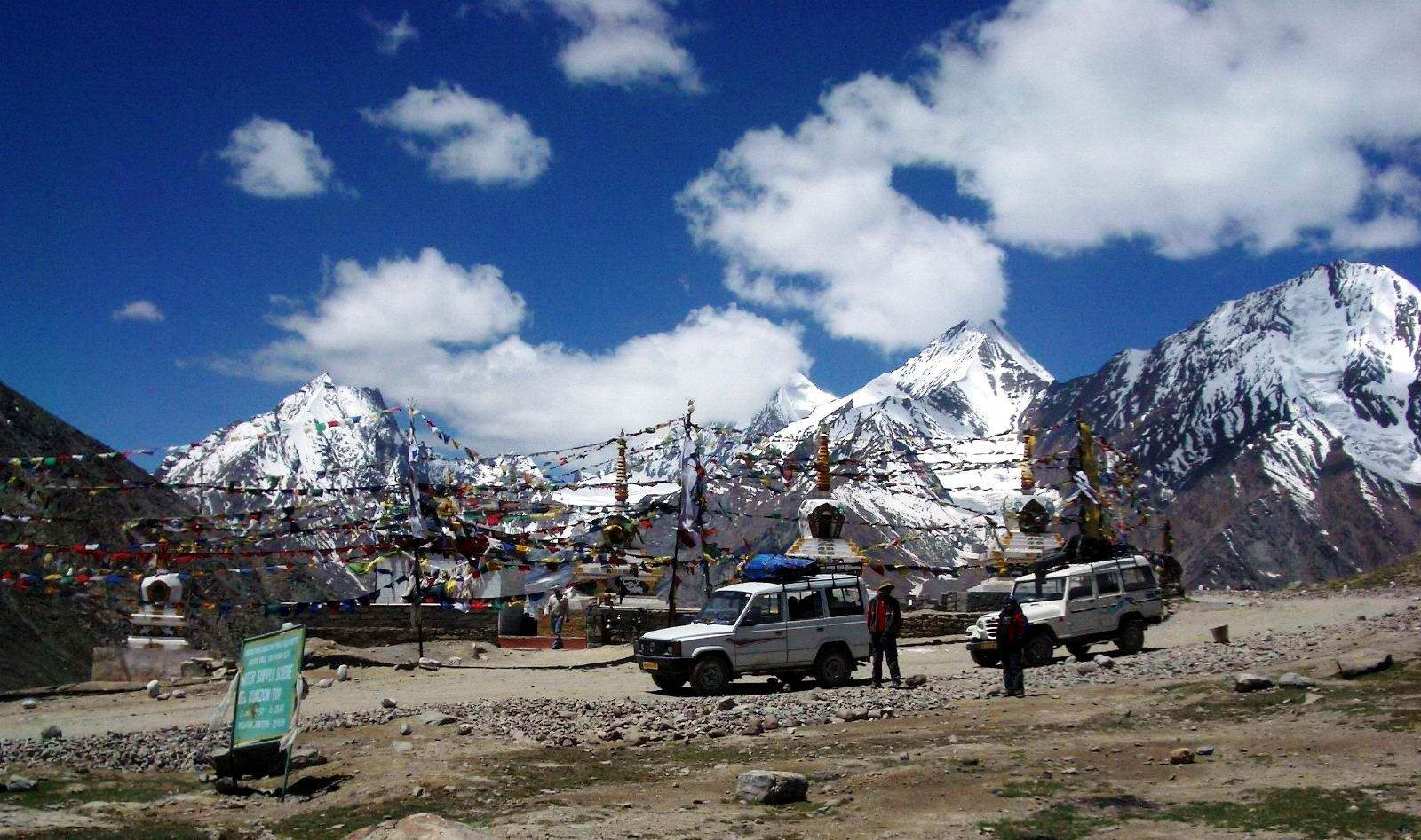 I took this photo on my 2004 trip to the region.